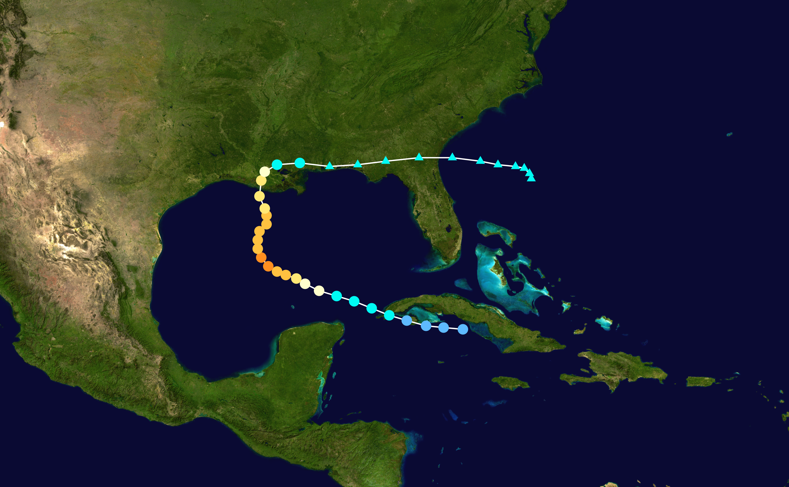 Track map of Hurricane Hilda of the 1964 Atlantic hurricane season. The points show the location of the storm at 6-hour intervals. The colour represents the storm's maximum sustained wind speeds as classified in the Saffir–Simpson scale (see below), and the shape of the data points represent the nature of the storm, according to the legend below. Saffir–Simpson scale Tropical depression≤38 mph≤62 km/h Category 3111–129 mph178–208 km/h Tropical storm39–73 mph63–118 km/h Category 4130–156 mph209–251 km/h Category 174–95 mph119–153 km/h Category 5≥157 mph≥252 km/h Category 296–110 mph154–177 km/h Unknown Storm type Tropical cyclone Subtropical cyclone Extratropical cyclone / Remnant low / Tropical disturbance / Monsoon depression